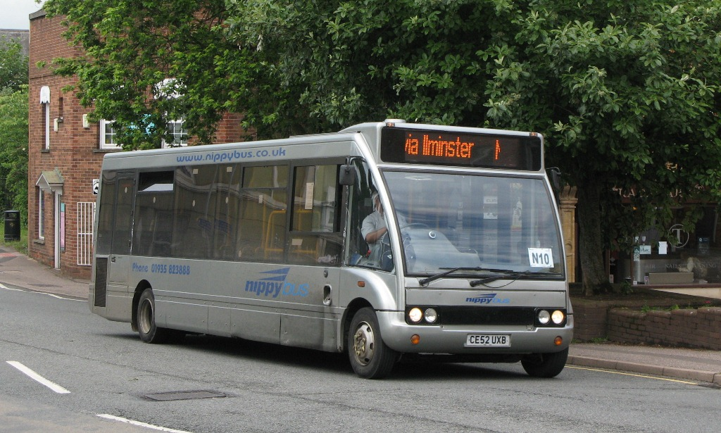 An Optare M850 (registration CE52UXB) operated by Nippy Bus arrives in Taunton on route N10 from its home town of Martock, Somerset. It has been diverted off its usual route due to roadworks in East Street.